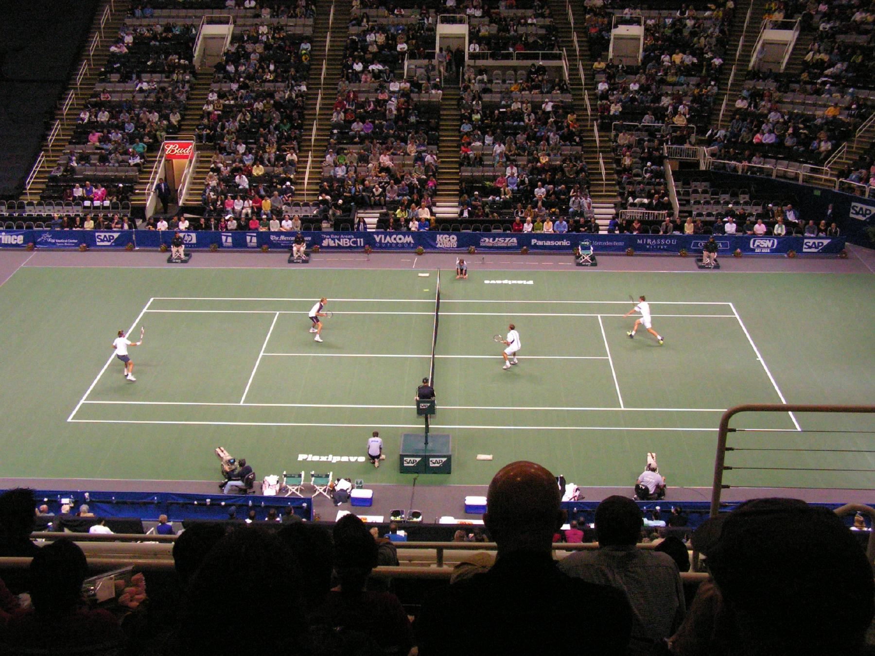 Photo of a stadium